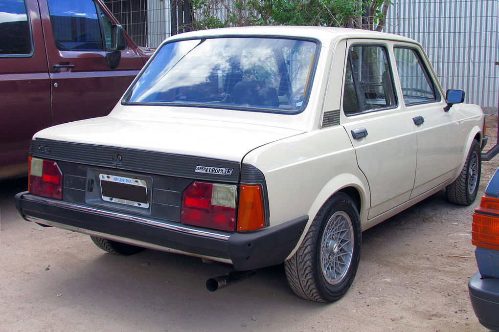 1988 Fiat (128) Super Europa 1.3 in Argentina